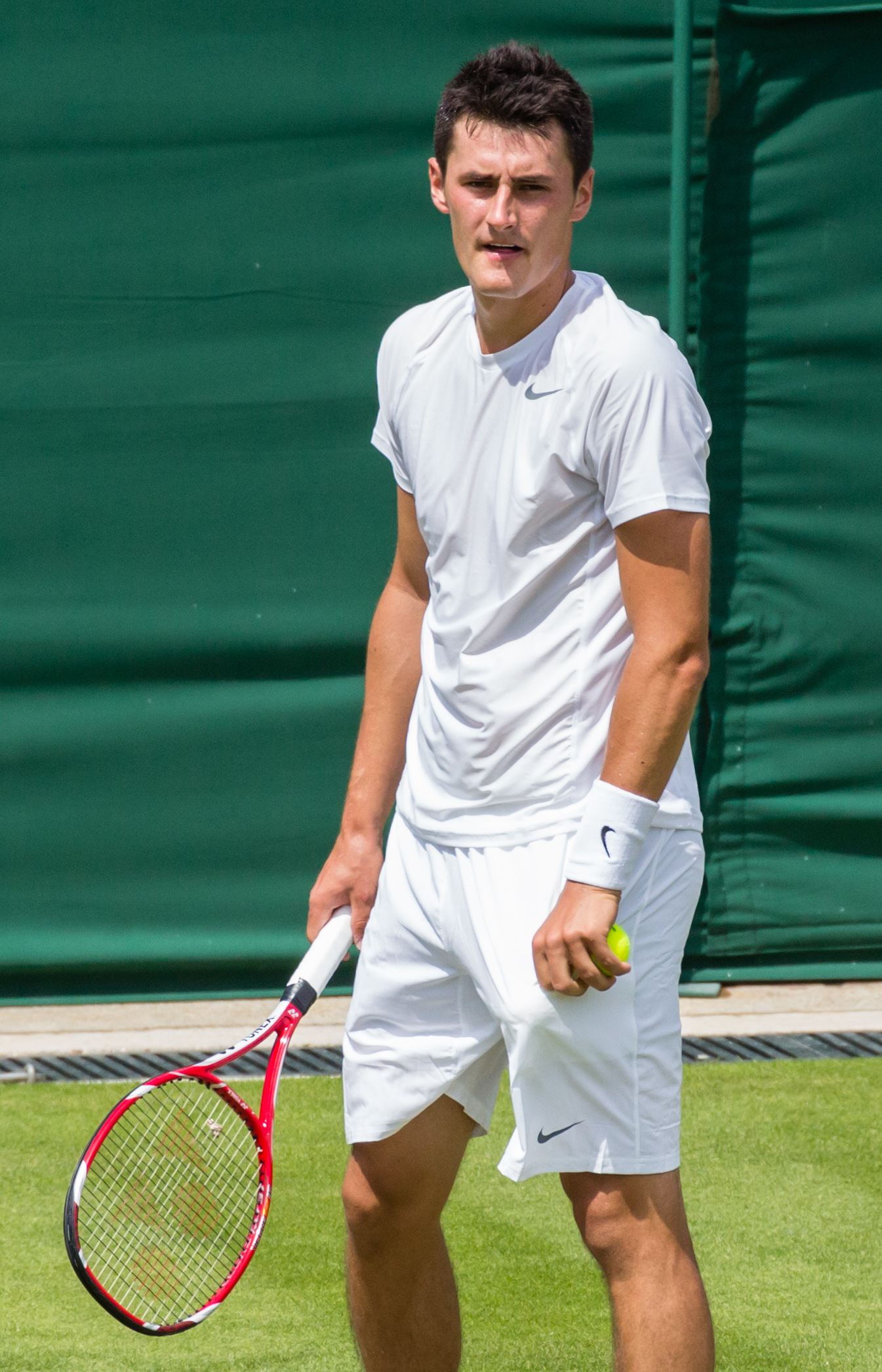 Bernard Tomic in the first round of the 2013 Wimbledon Championships.